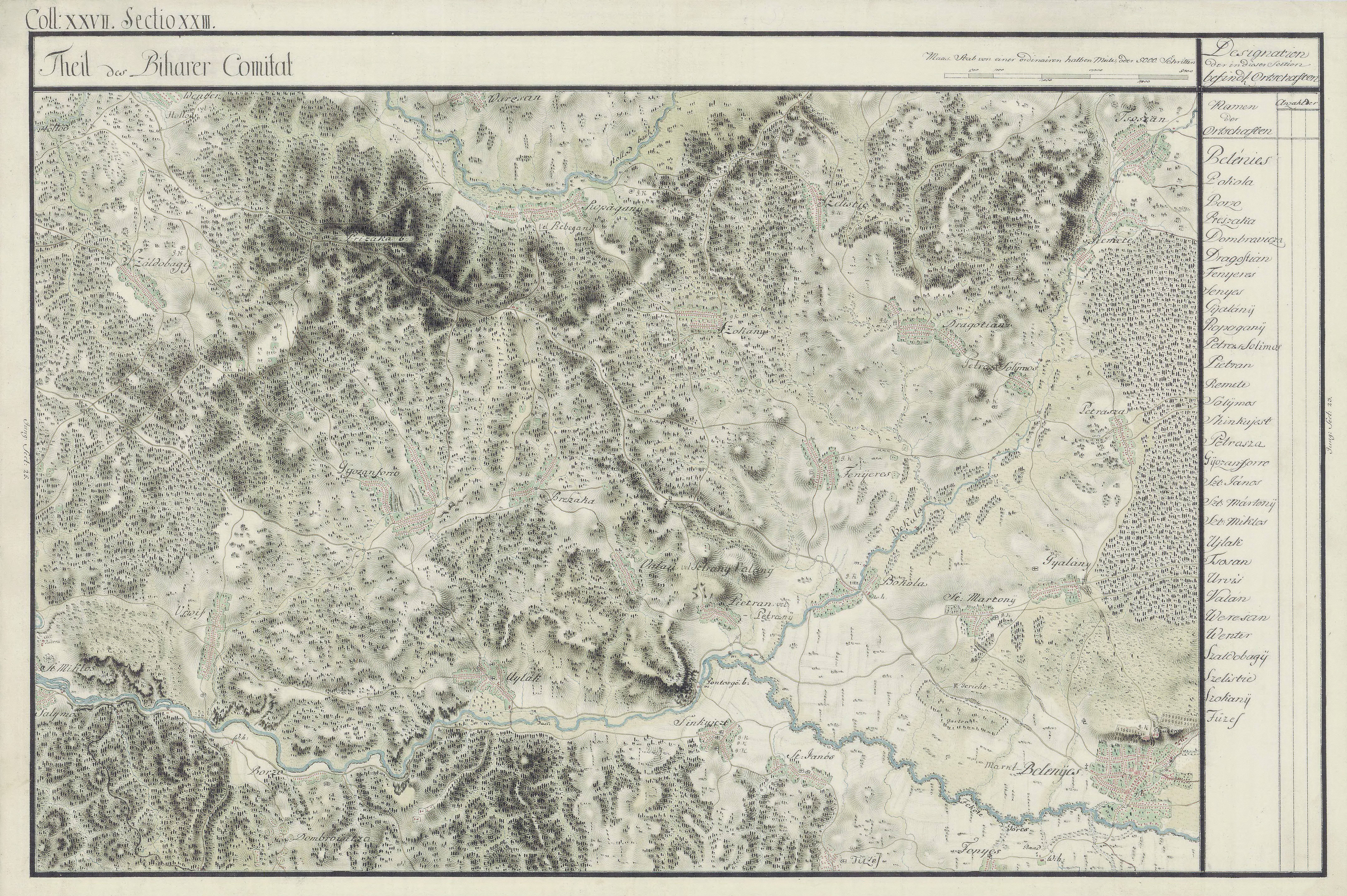 Bihor County, 1782-85. Josephinische Landesaufnahme pg.27-23